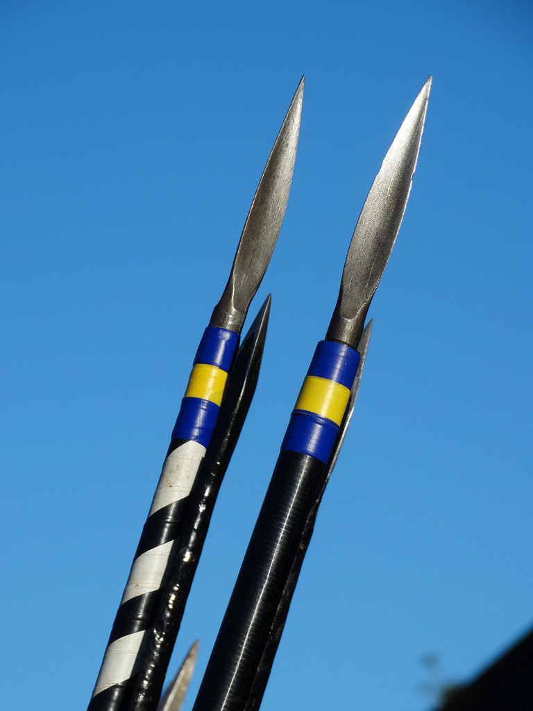 Lances used for tent pegging